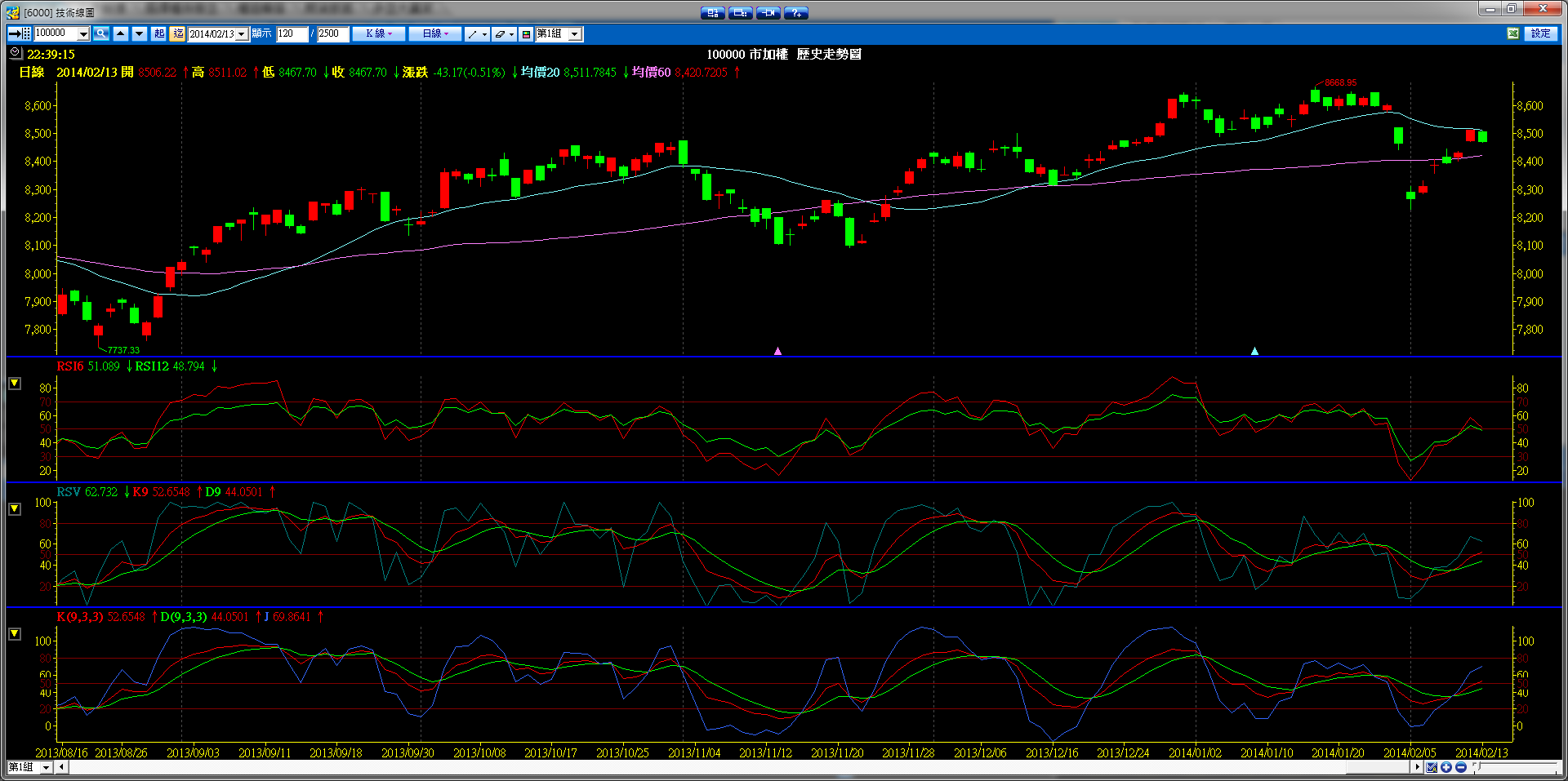 RSI, KD&RSV, KDJ (Technical analysis)